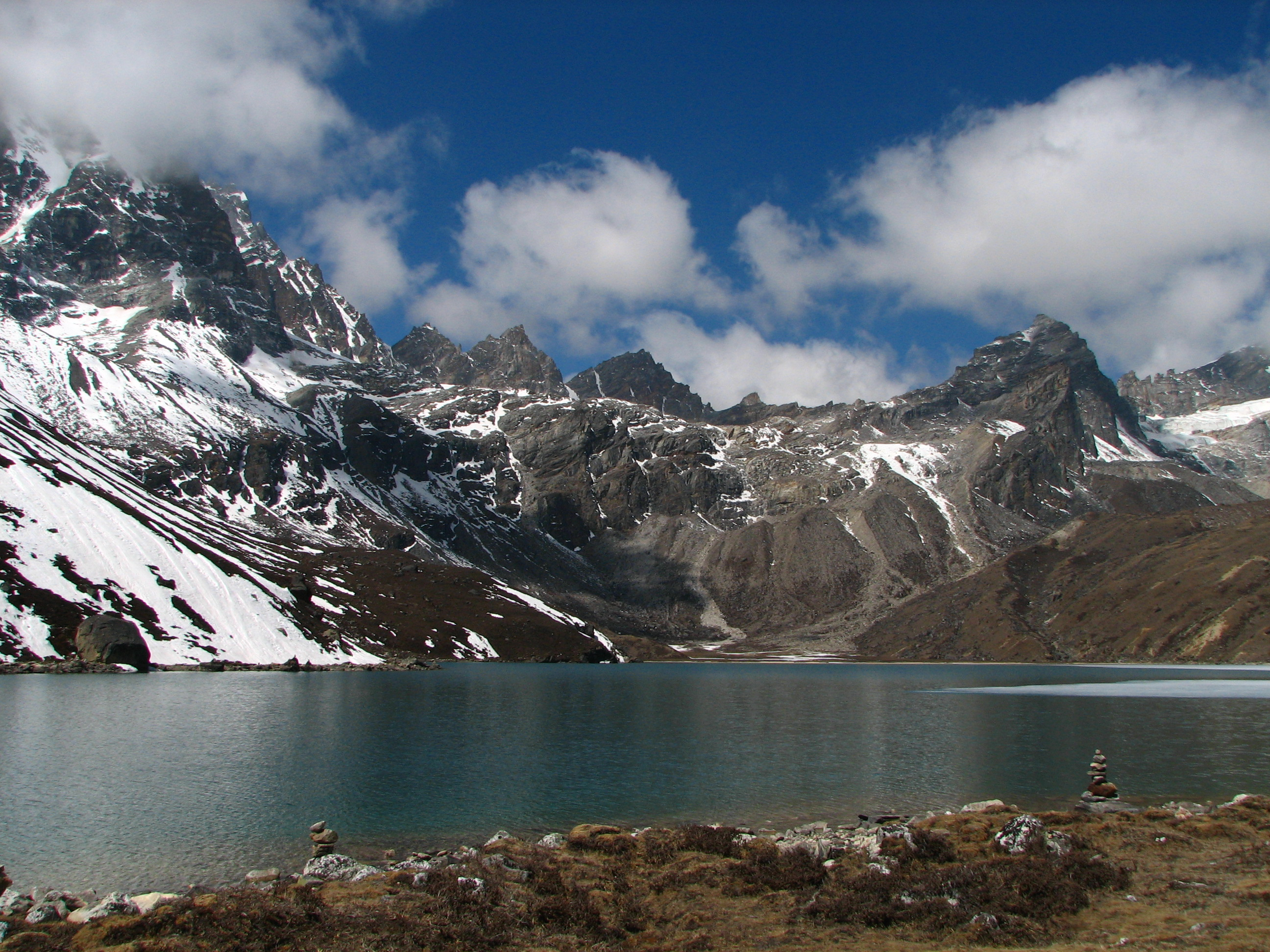 The 3rd Gokyo Lake